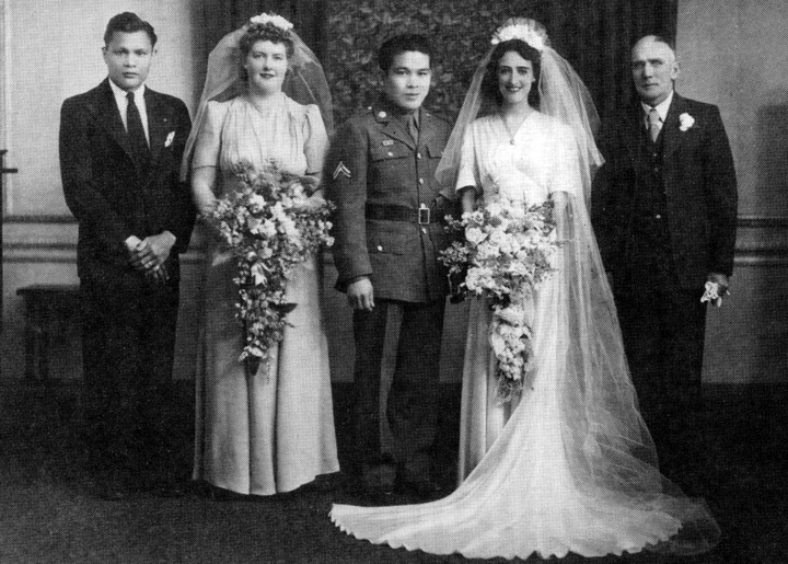 Photograph of the wedding of Lorenzo Gamboa and Joyce Cain. Others pictured (L-R) are presumably the best man, maid of honour, and the bride's father